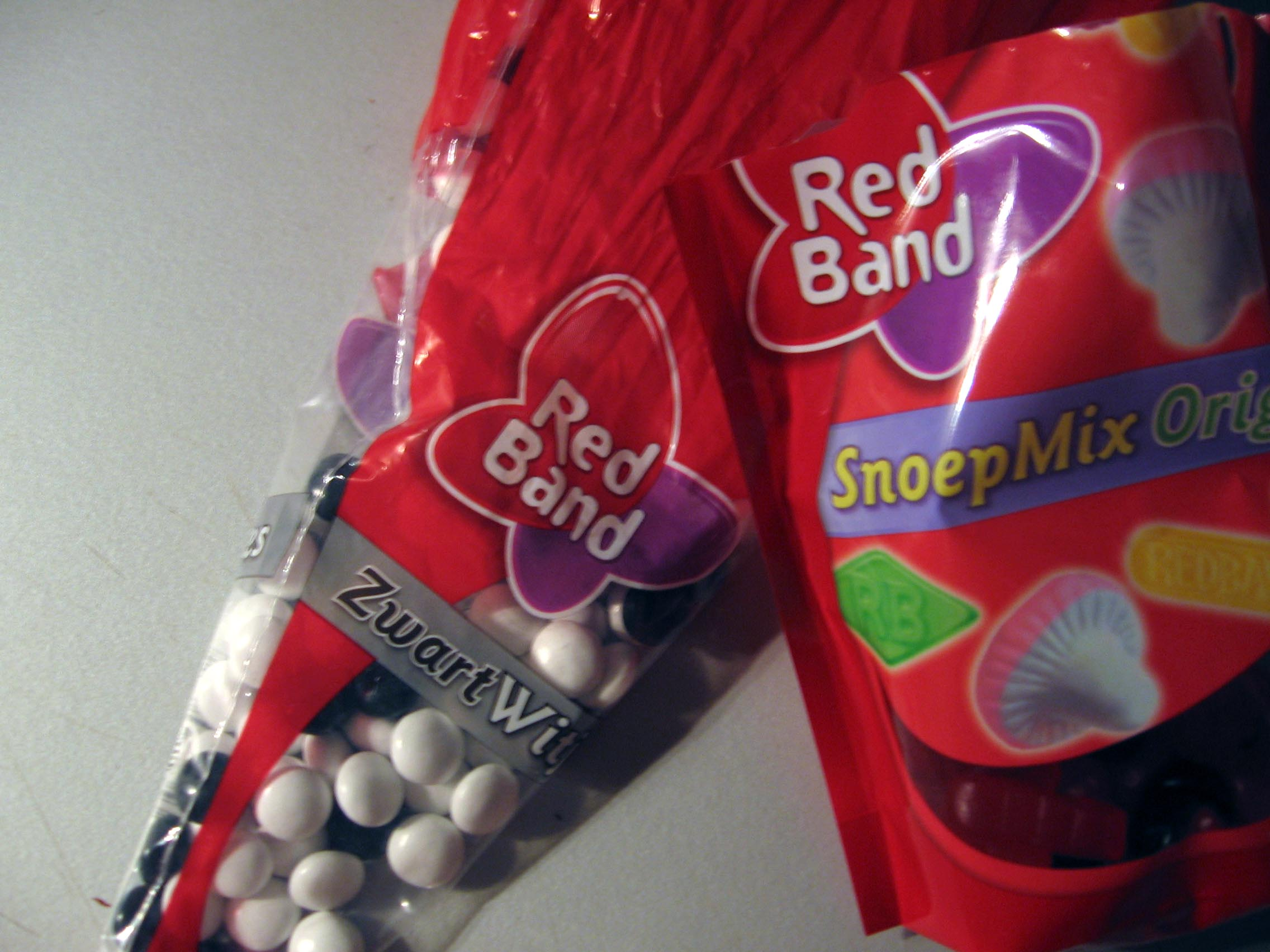 Red band